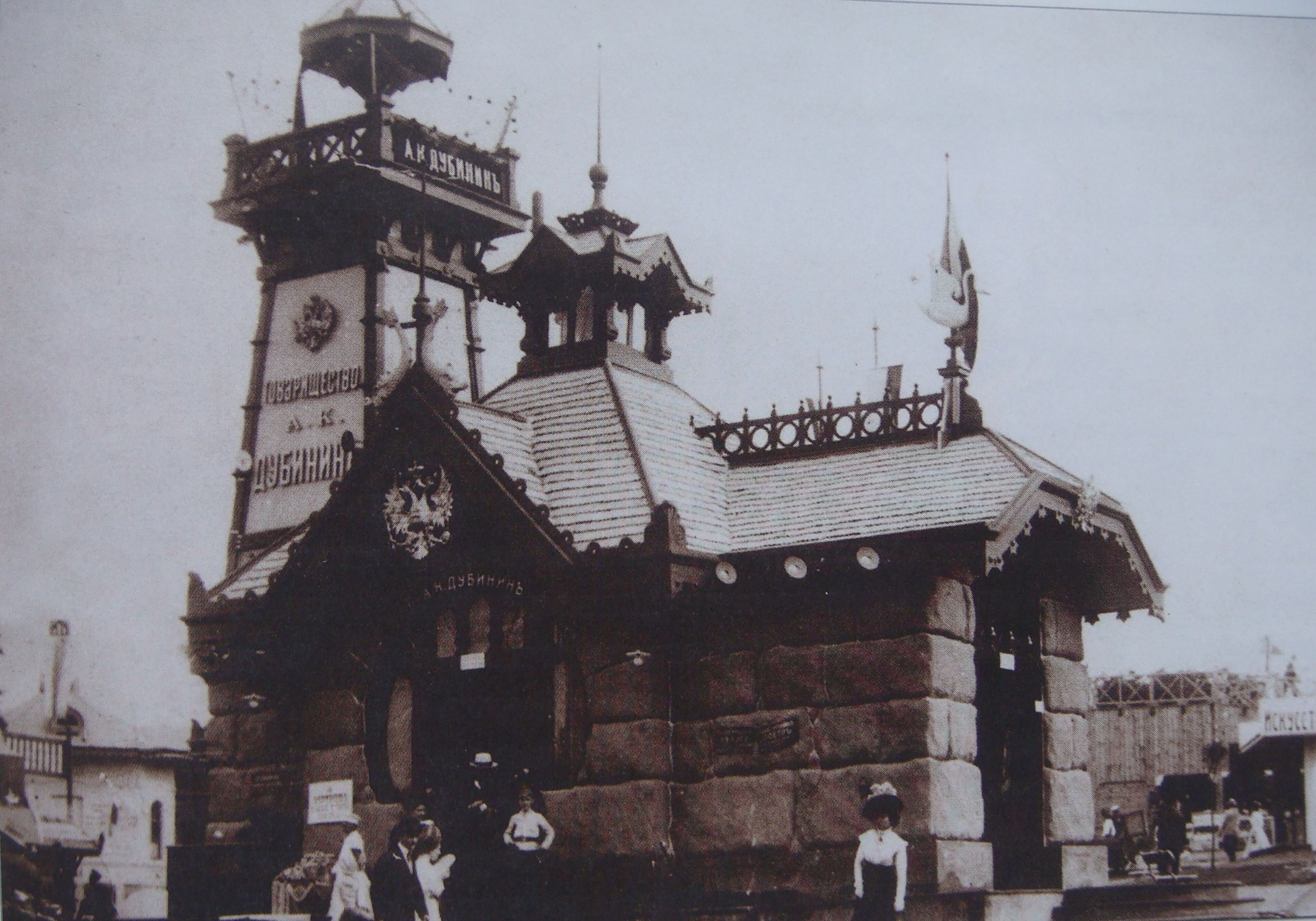 Pavilion of Dubinin Co at Odessa Art & Industry Exposition. 1910.